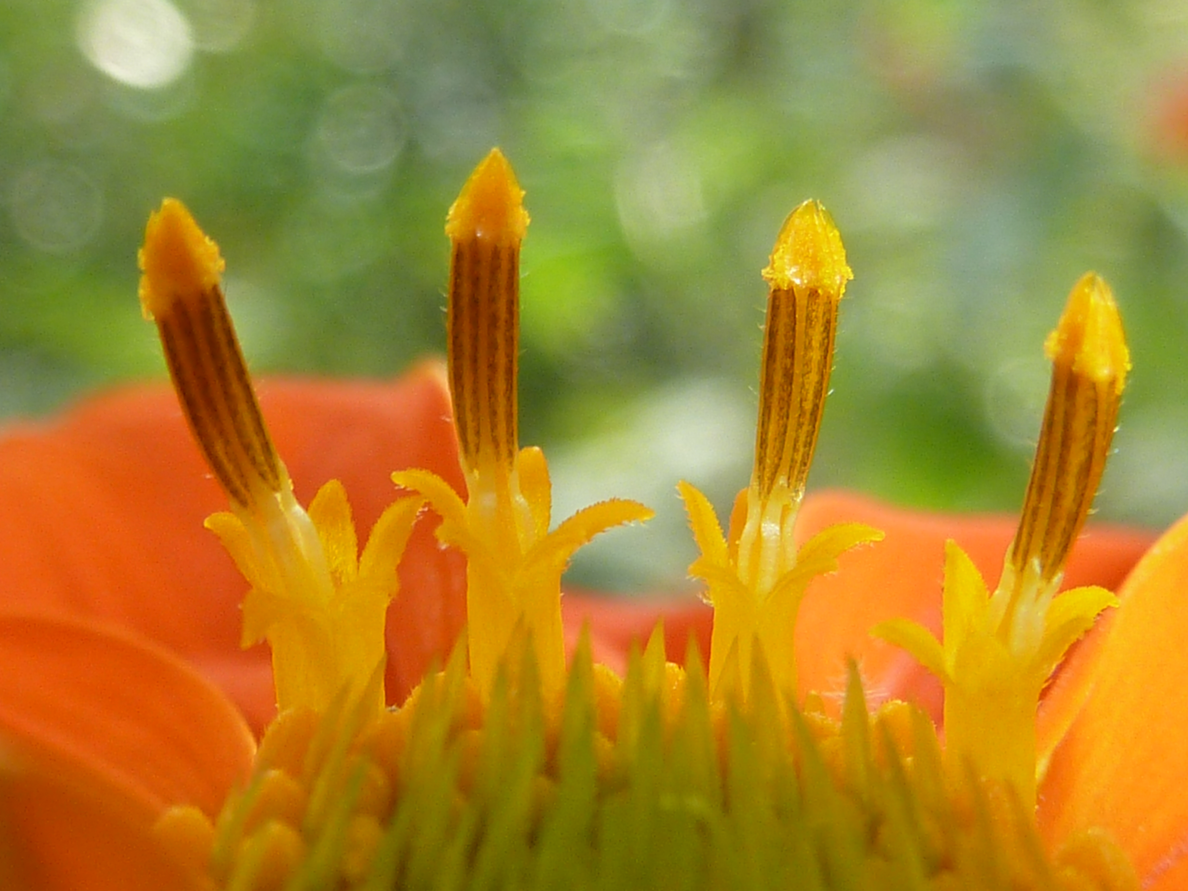 Flowers of a Red sunflower in Groenkloof Nature Reserve